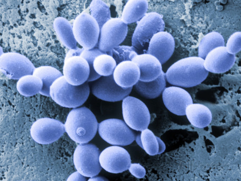 Budding